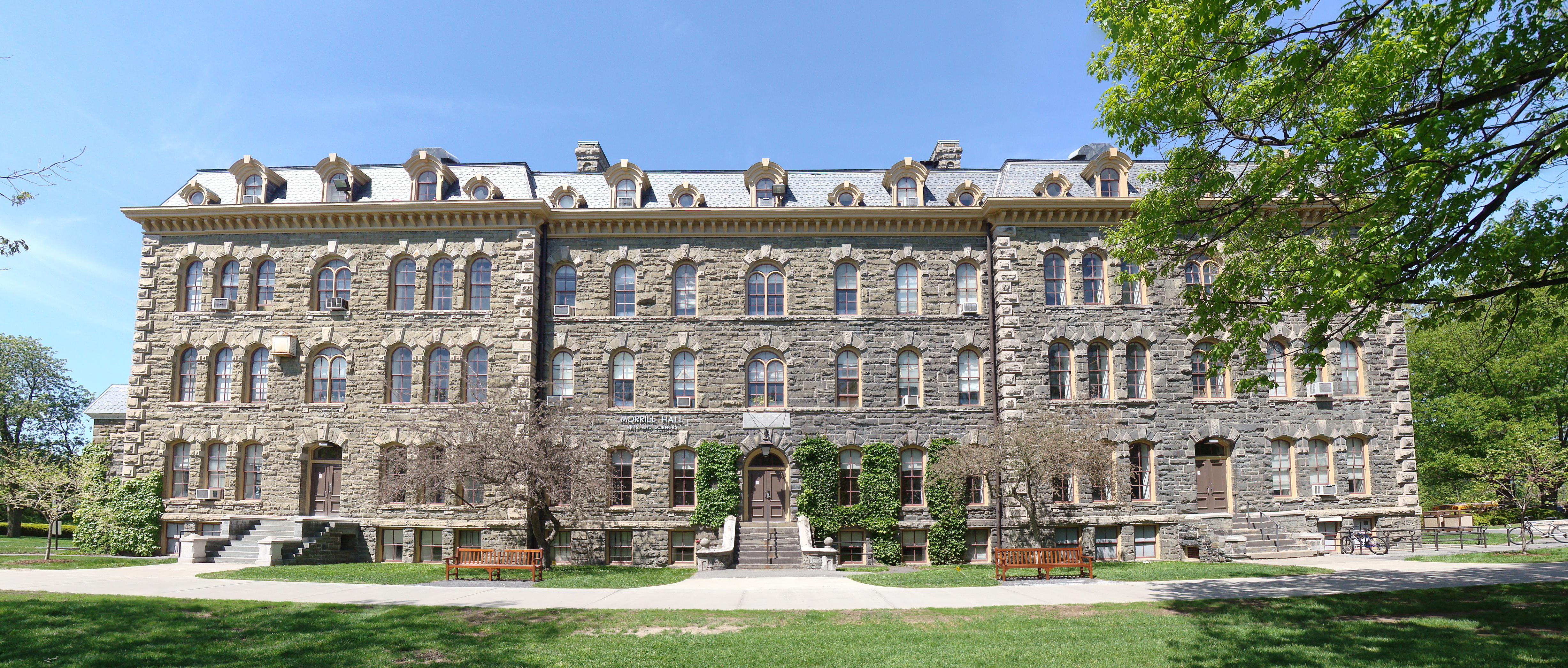 A stitch of 33 photos (arrayed in a rectilinear projection) taken from close range detailing the eastern face of Morrill Hall at Cornell University. Note the figure "141" formed out of foliage on the front of the building. Presumably, this number refers to the age of the building, as the structure was built in 1868 and this photostich was assembled from photographs taken in 2009.